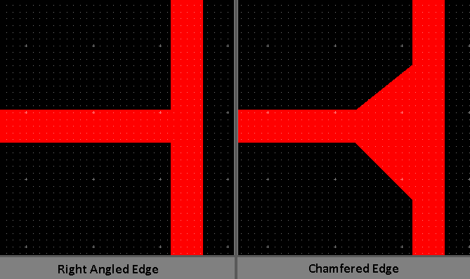 This image is to describe chamfers in printed circuit board designing.